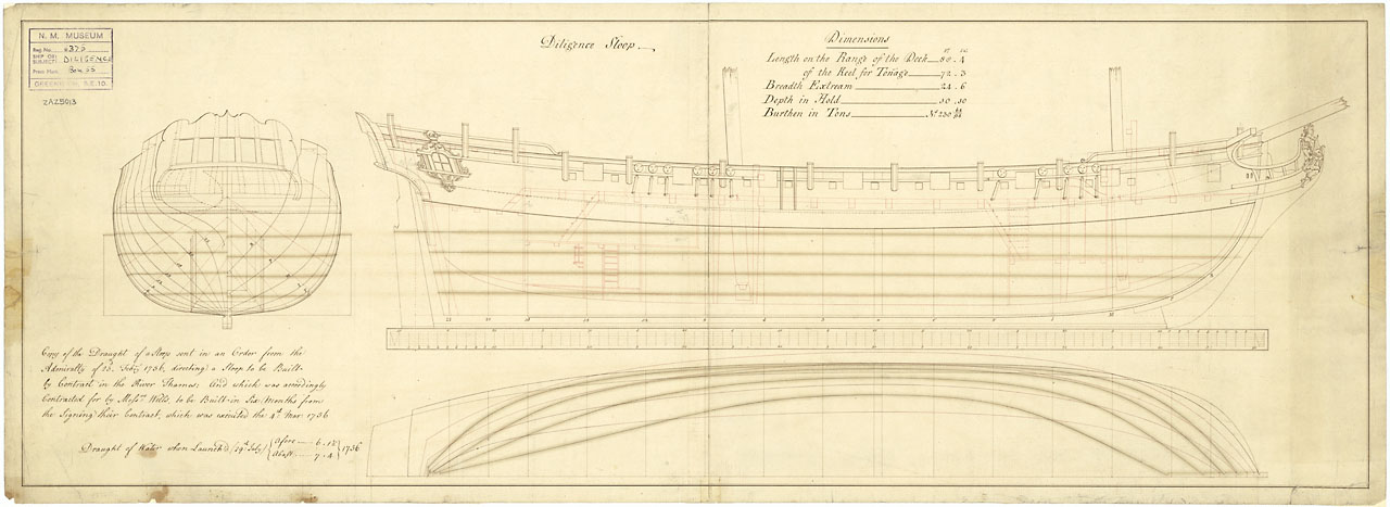 DILIGENCE 1756 lines & profile